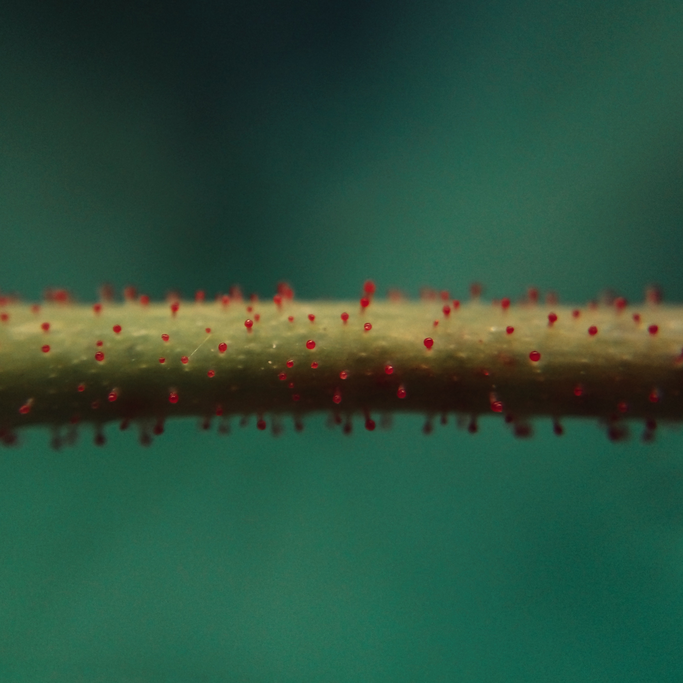 Macro shot of red trichomes of a stem of roses